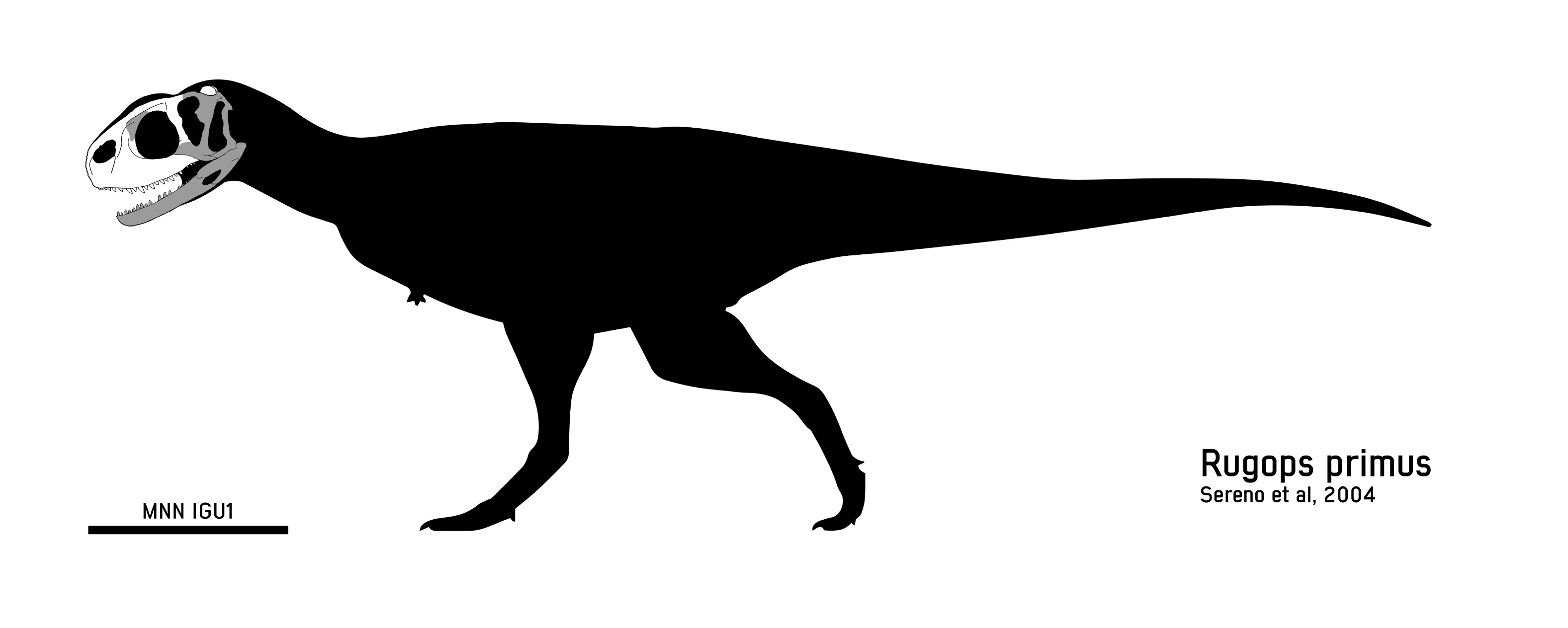 Holotype and only know specimen : MNN IGU1. A partial skull missing the posterior region, preserving the maxilla, frontals, lacrimals, prefrontals, nasals, parietal, and premaxillae. Full restored skull length is 31.5 centimeters, suggesting an animal significantly smaller than Majungasaurus crenatissimus, Aucasaurus garridoi, and Carnotaurus sastrei.